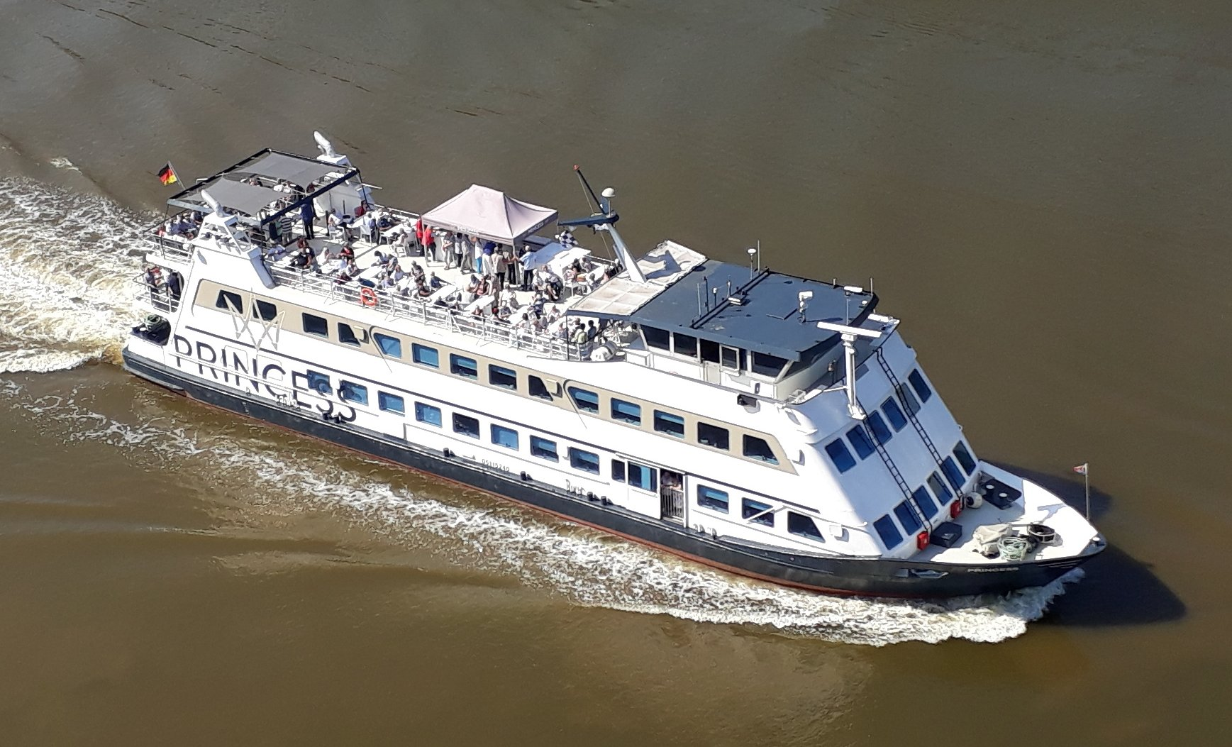 Passenger Ship PRINCESS (IMO 8876302) built at Scheepswerf Grave B.V., Grave, as STAD ZIERIKZEE (yard № 90, delivered: 1989), later names: 1995 ADLER PRINCESS, 2017 PRINCESS, photo: Kiel Canal 2019-08-24.